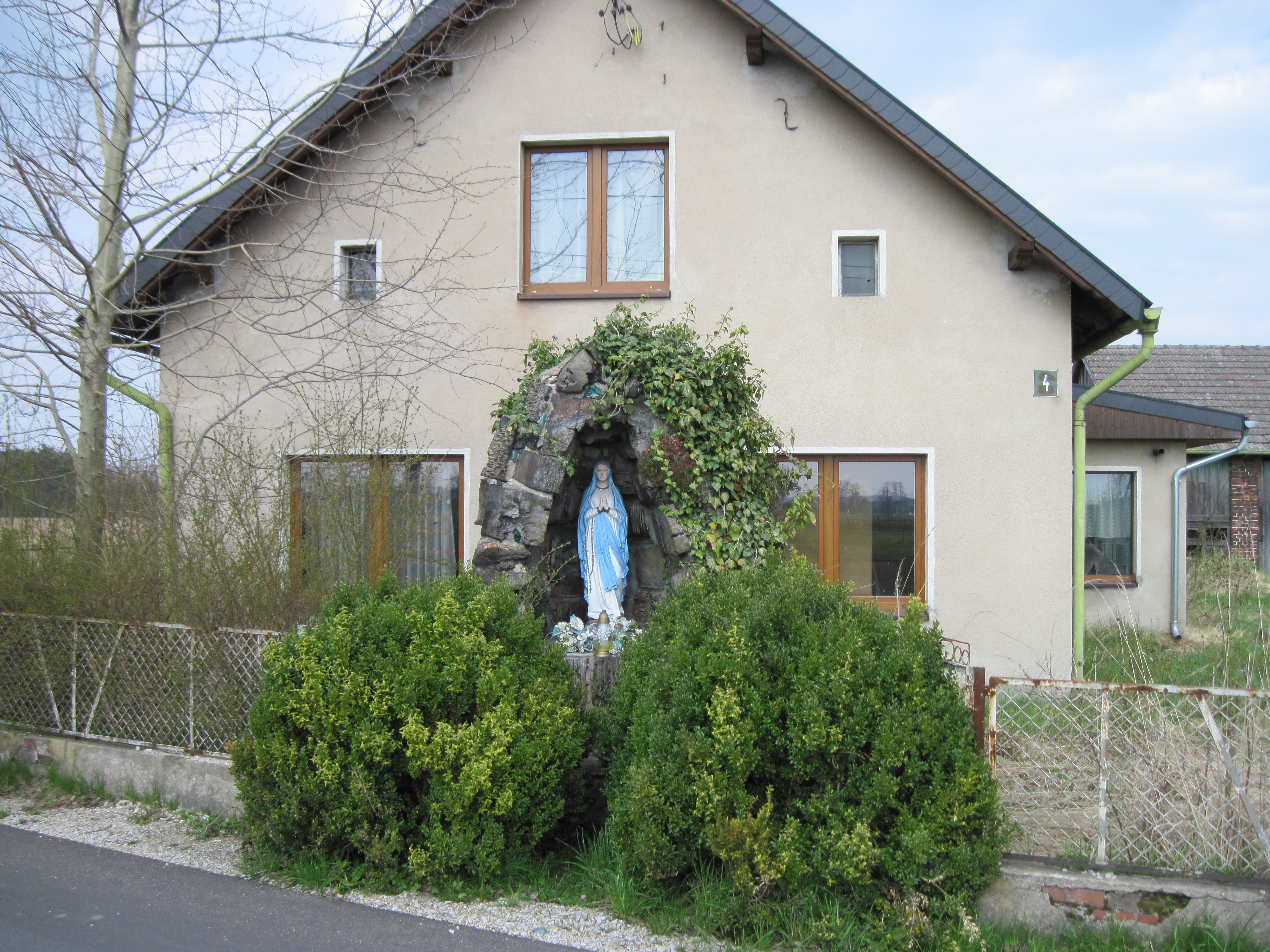 Blessed Virgin Mary grotto at Prosta street in Brynica